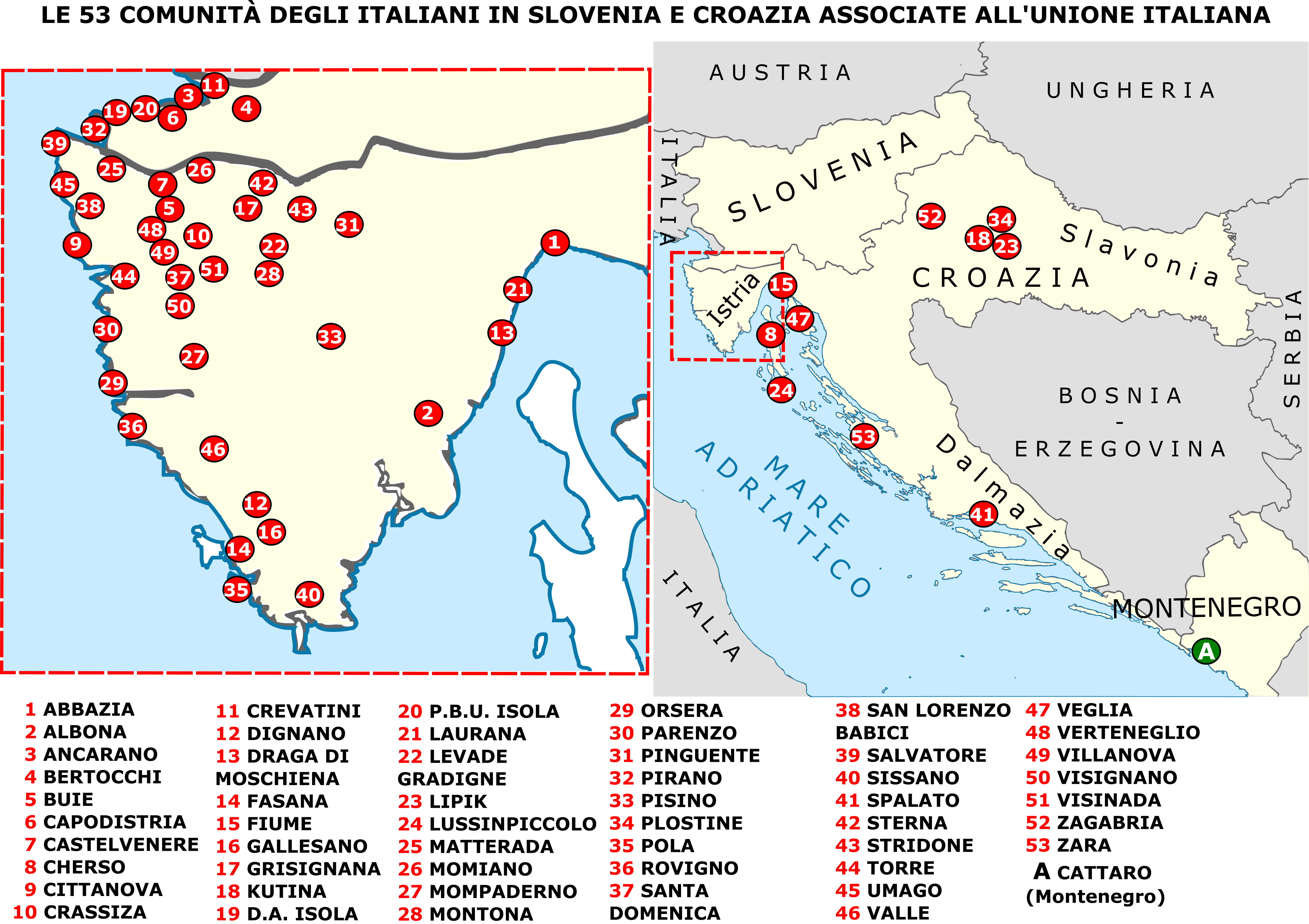 The 53 Italian Communities (CI) in Slovenia and Croatia associated to the Italian Union (Unione Italiana).